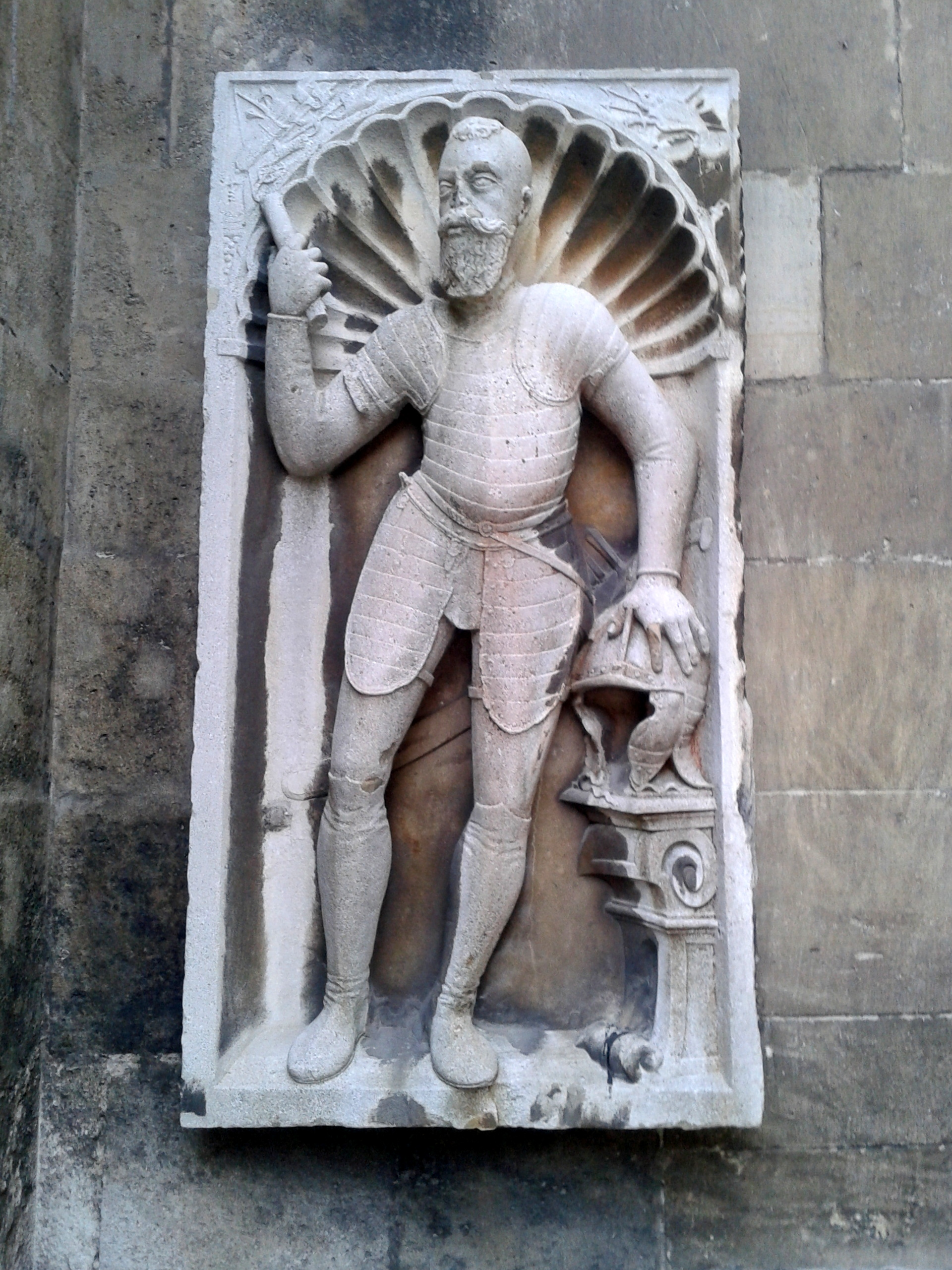 Exterior of the St. Martin's Cathedral, Bratislava